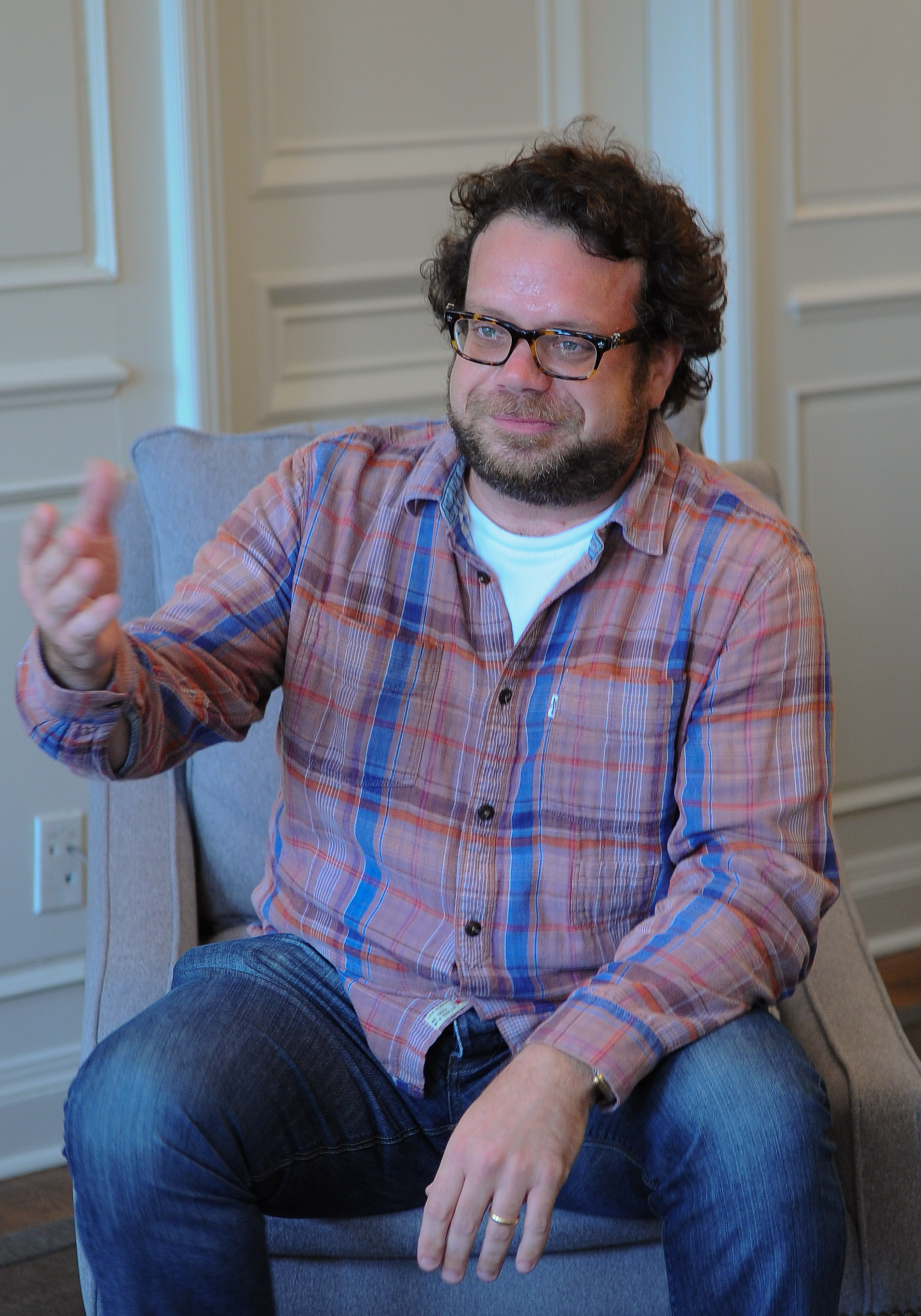 Master class with Christophe Beck.